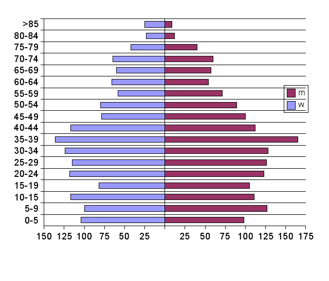 Population pyramid of Vintl 2001